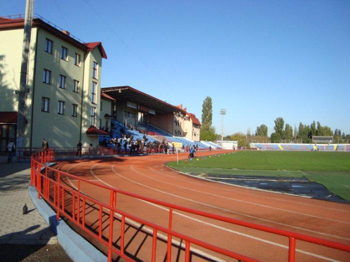 Fiolent Stadium in Simferopol, Crimea, Ukraine